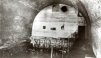 Tunnel in the Riqueval used by the Germans